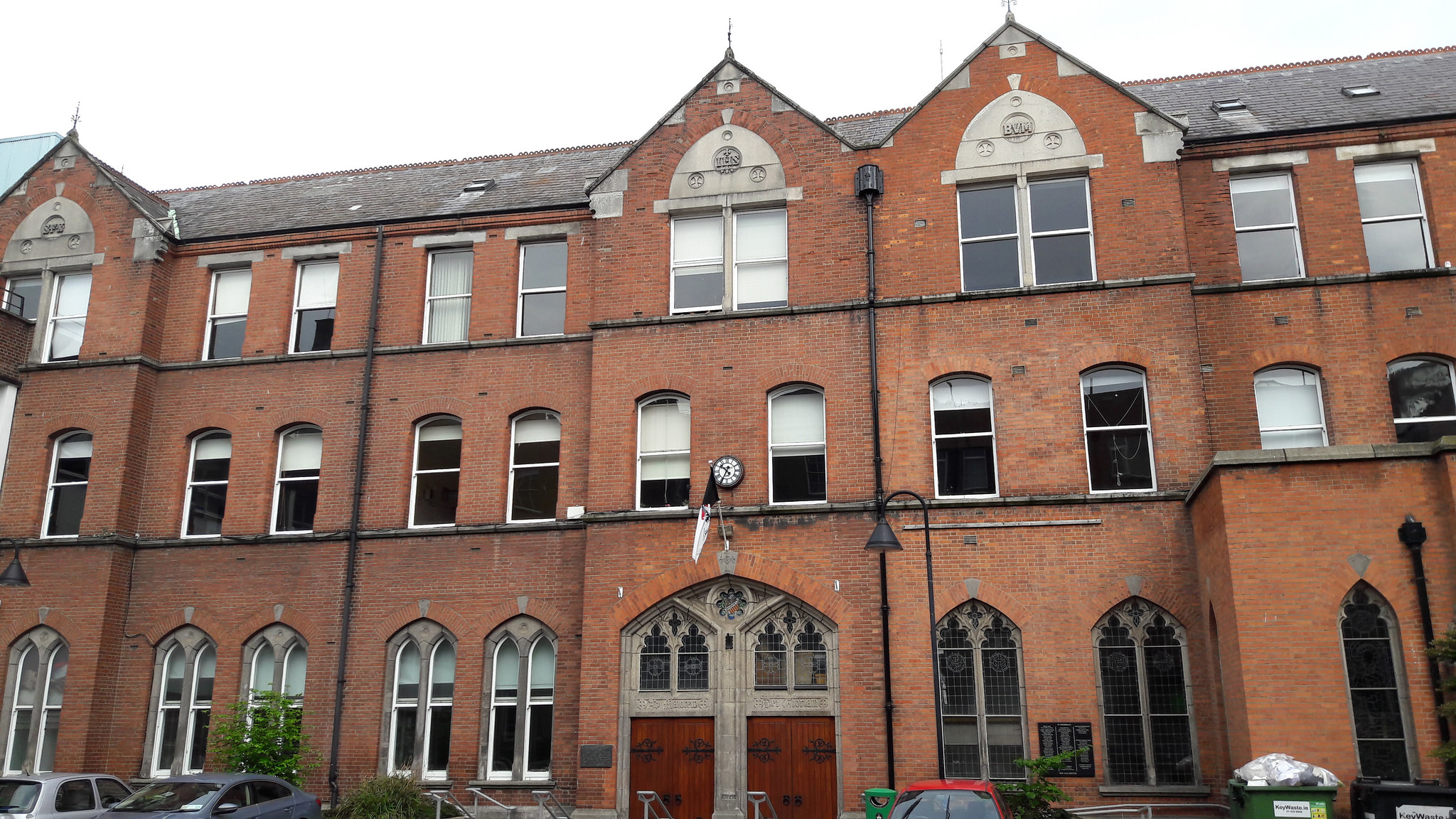 Belvedere College, a Jesuit college in Dublin